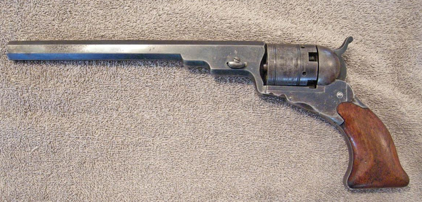 Colt Paterson 5th Model